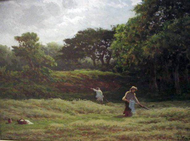 "Gathering Hay" watercolor signed J.Knight '93